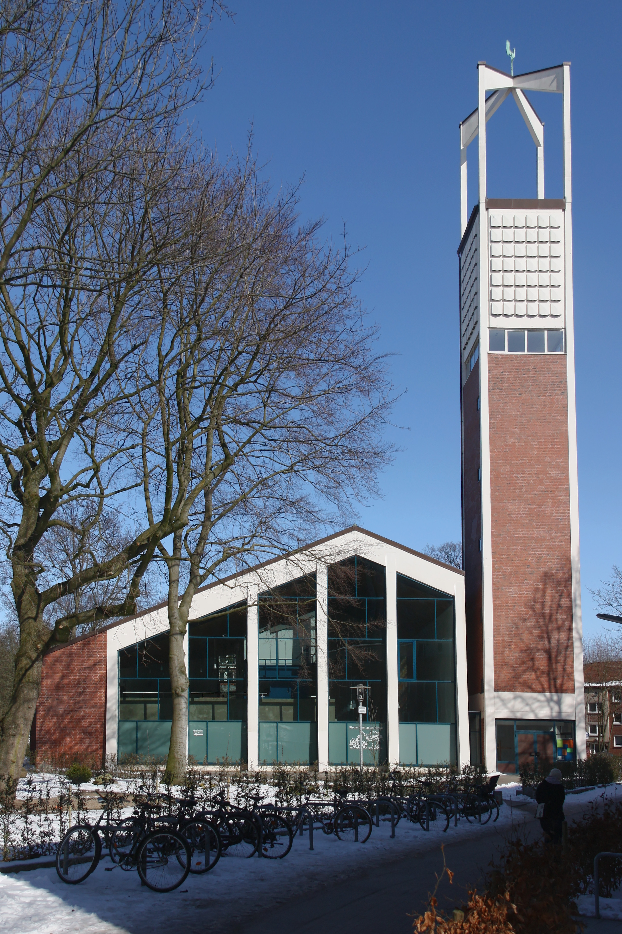 Hamburg-Langenfelde, Good Shepherds Church, view from the west